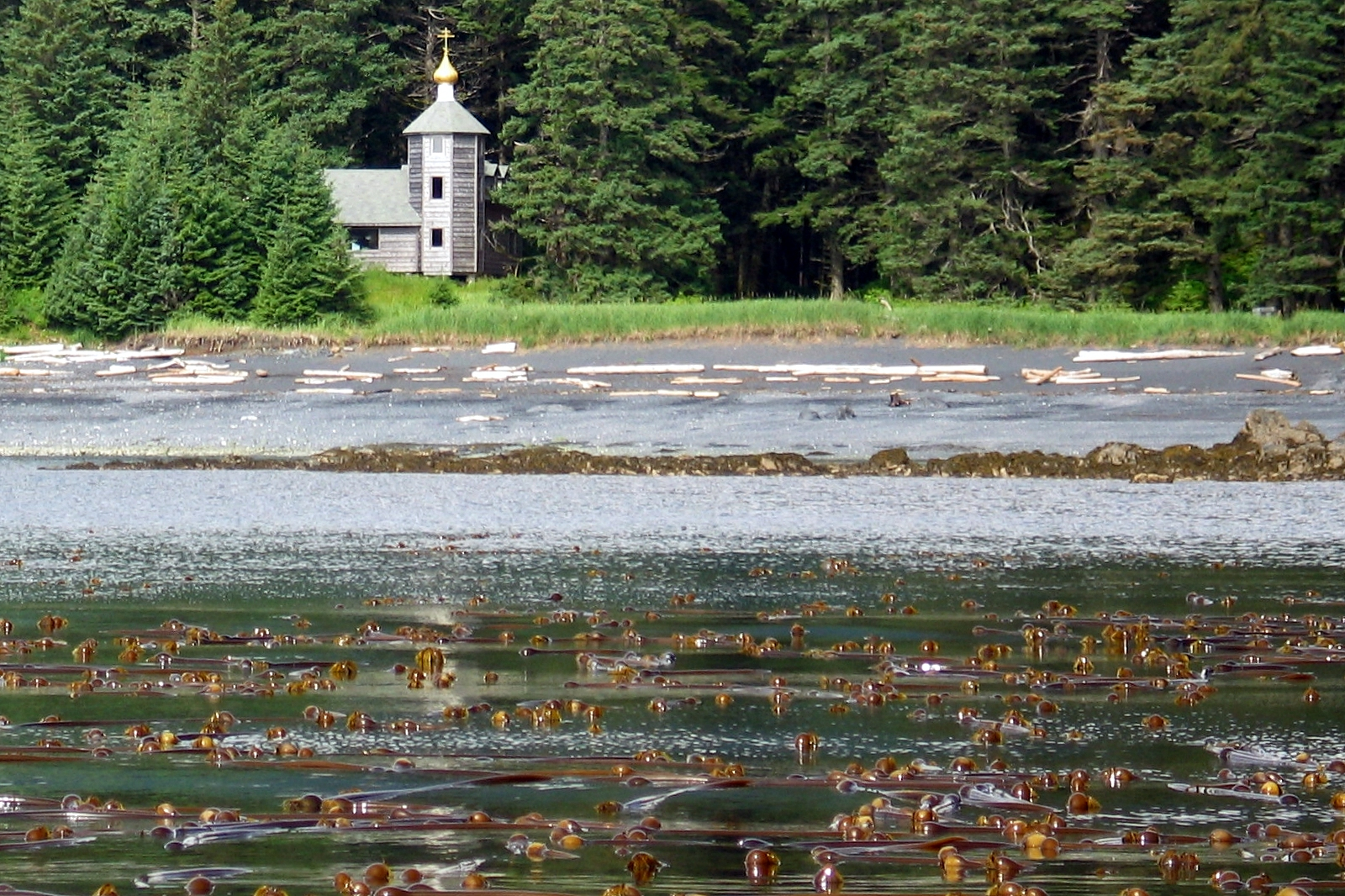 Nereocystis luetkeana kelp at Monk's Lagoon in foreground of a Russian Orthodox monastery at Monk's Lagoon on Icon Bay, Spruce Island, Alaska. The monastic building on Monks Lagoon contains a trapeza, chapel, small library, and sleeping quarters for people visiting St. Michael’s Skete, St. Nilus Skete and Saints Sergius and Herman of Valaam Chapel, built in 1898 over the site where St. Herman was buried on Spruce Island in December 1836. Pilgrims from around the world are coming to Spruce Island to commemorate America's first saint, Saint Herman of Alaska. (Reframing of Line4323 - Flickr - NOAA Photo Library.jpg ) Alaska, Spruce Island, Icon Bay.